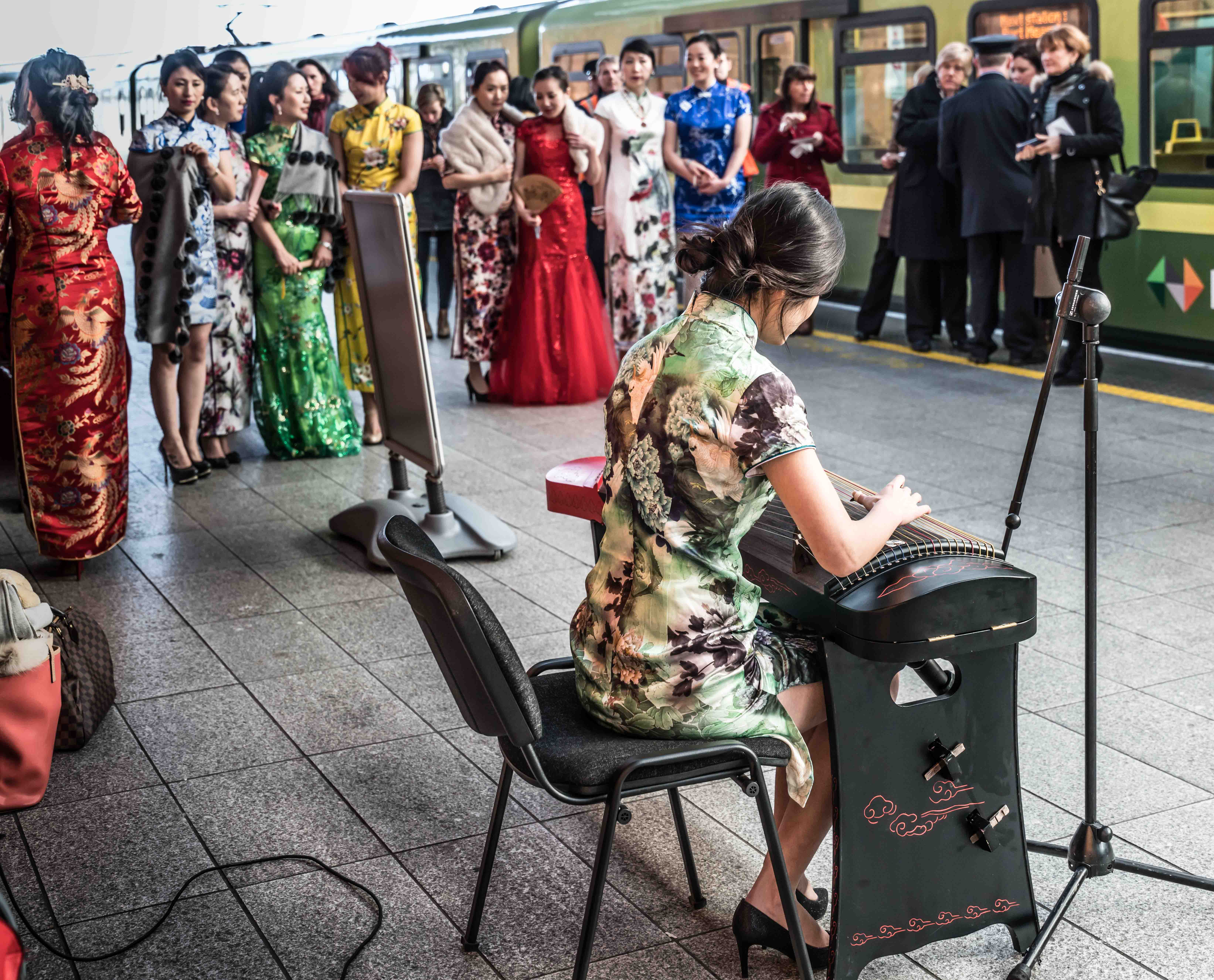 This morning I was on my way to Howth when a nice Chinese lady, thinking that I was a press photographer, invited me to photograph the ‘Official Chinese Delegation’ so I took the opportunity even though I did not have an ideal lens [my fall-back excuse for not being a good portrait photographer]. A delegation from the Shanghai Metro were in Connolly Station this morning as a two-week-long tribute to Chinese poetry was launched. The China Cheongsam Association of Ireland performed traditional Chinese music and dance on platform four from 11am, and there was some Chinese cuisine samples for passengers who got there early as i was planning to have lunch in Howth I did not try the food. Last year Chinese commuters in the city of Shanghai were treated to the poetry of W.B. Yeats as they travelled on board the local Metro service and as they passed through various stations as part of the Yeats 2015 celebrations. This year CIE will continue the relationship by displaying famous Chinese poems on board the DART and at Stations during February to mark Chinese New Year. The poems will be displayed in Chinese and English. For more information relating to the Chinese New Year here in Ireland please visit